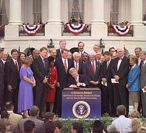 Balanced budget act of 1997. Kasich chairman of the House Budget Committee.